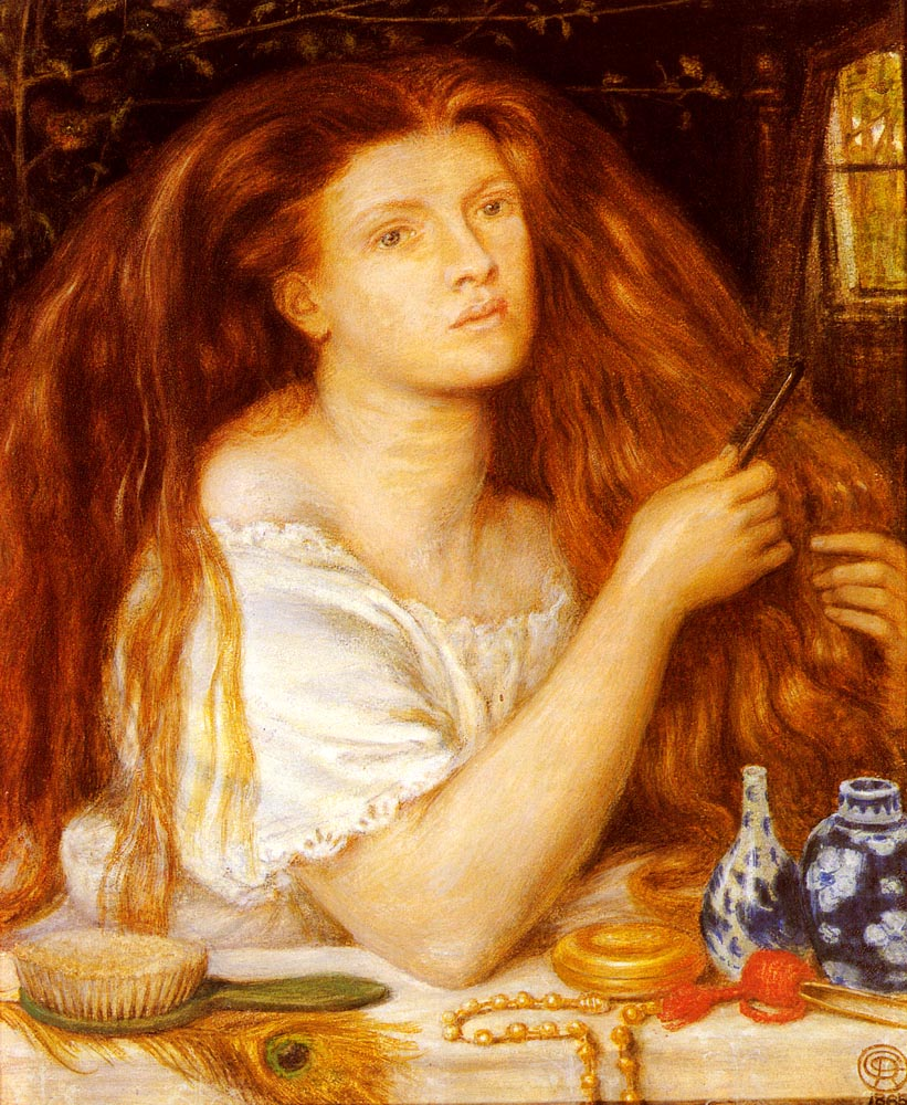 Woman Combing Her Hair (or Golden Tresses?)